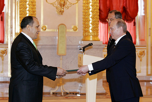 ST ALEXANDER HALL, GRAND KREMLIN PALACE. Ceremony for the presentation by foreign ambassadors of their letters of credentials. Ambassador of the Socialist People\'s Libyan Arab Jamahiriya Mustafa Miftah Taher Tajuri presents his letter of credentials. In the background is Russian Foreign Minister Sergei Lavrov.